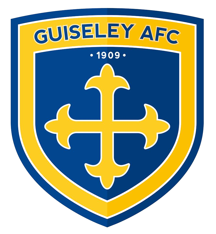 Guiseley A.F.C.